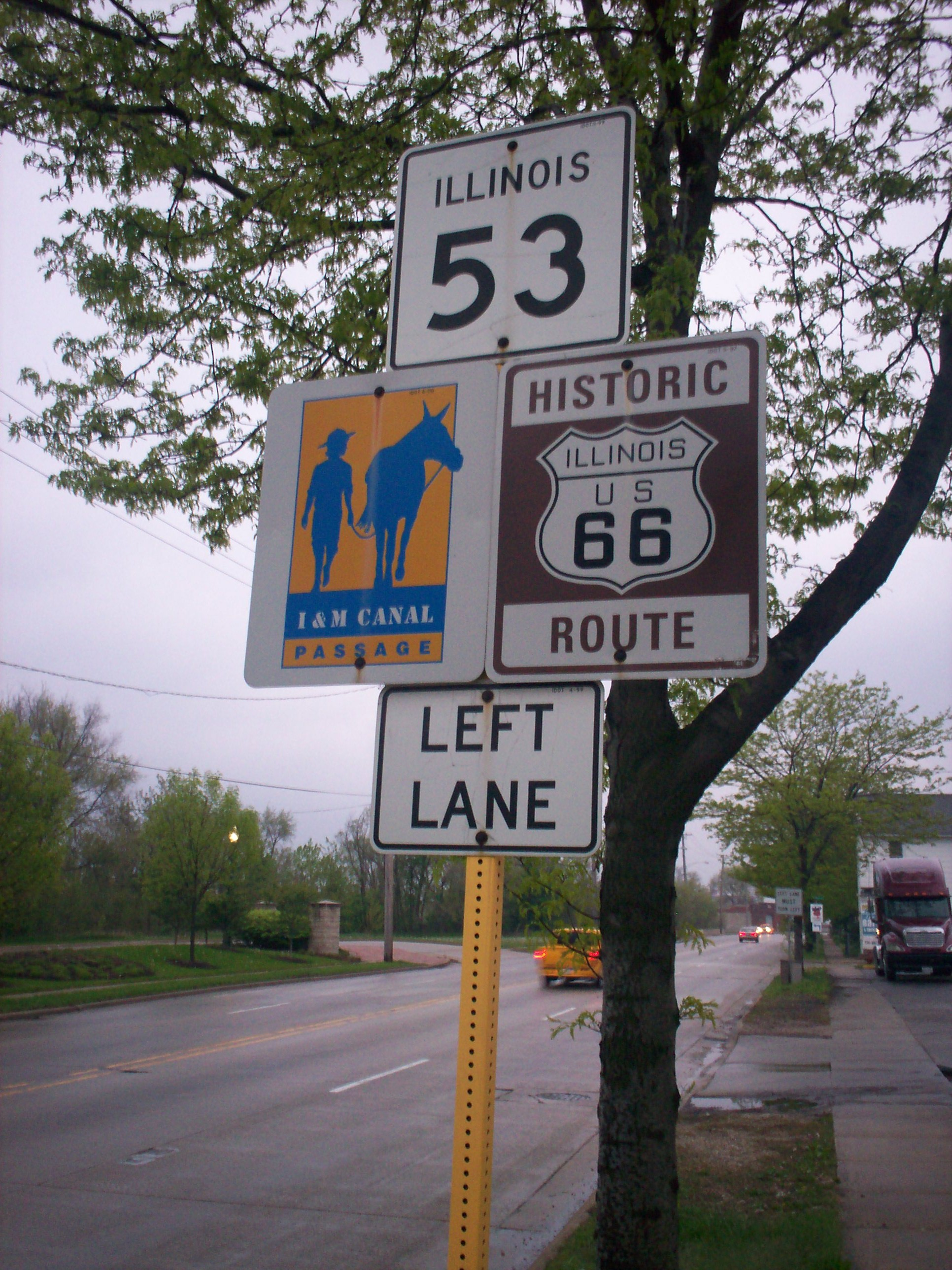 Historic Route 66 in Joliet & Route 53 IL south of Theodore Street on April 23, 2010. Route 66 overlaps Route 53 at this point and also runs parallel to the I&M Canal in Joliet, IL.